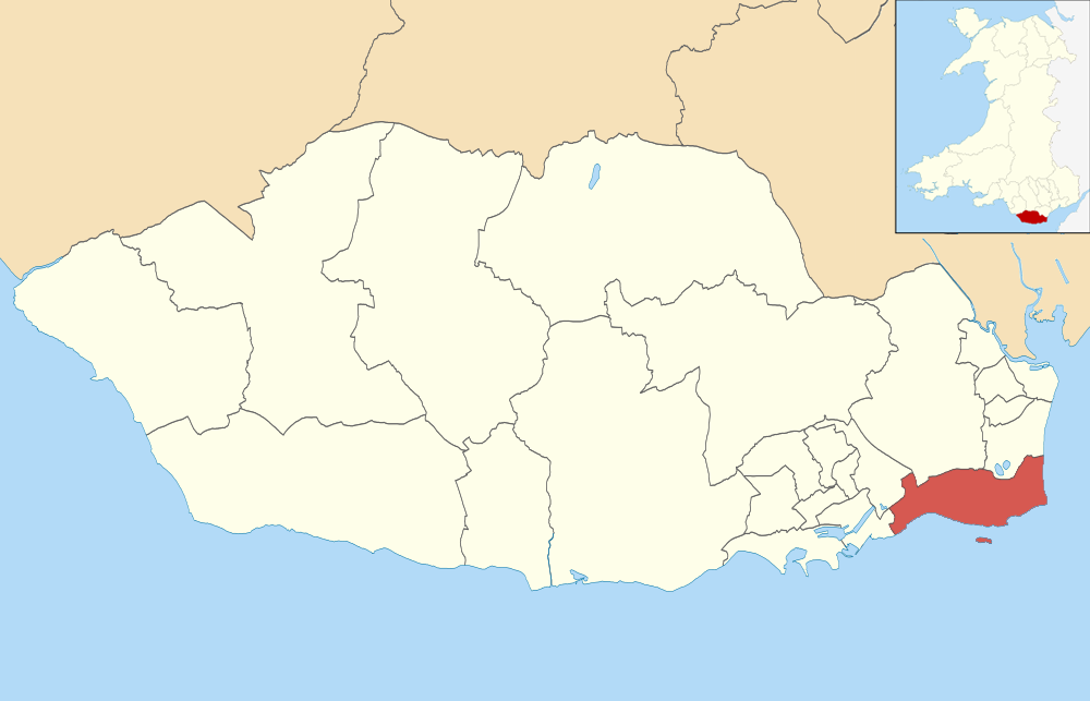 Location map showing electoral ward of Sully within the Vale of Glamorgan, Wales